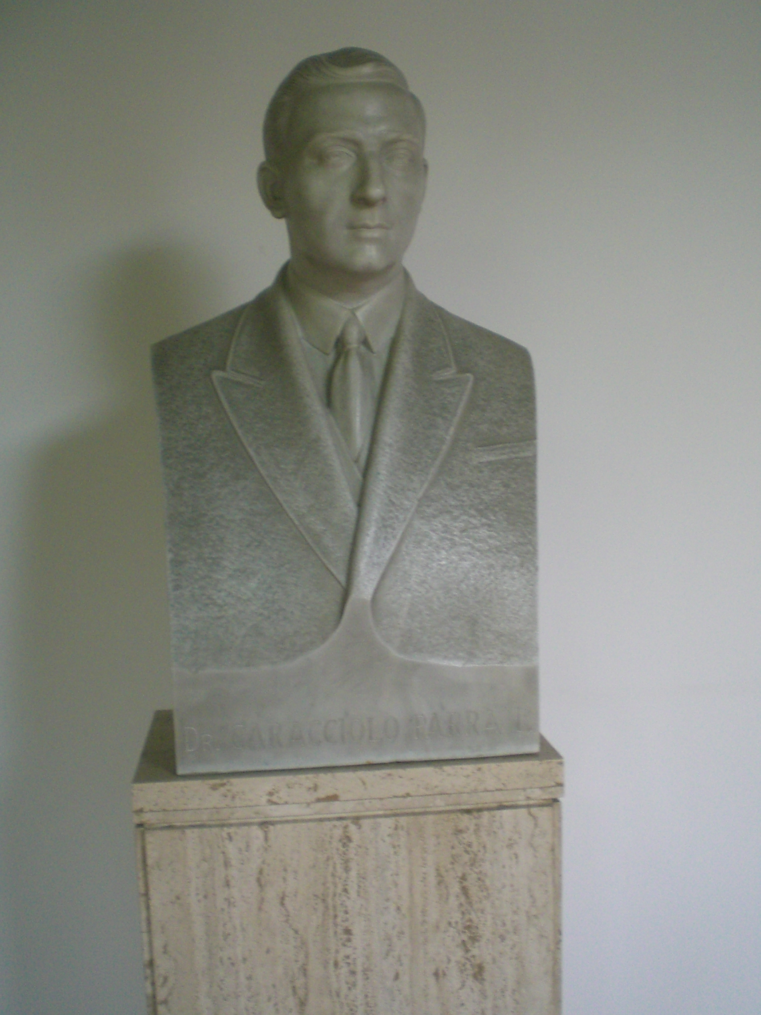 Sculpture of Venezuelan intellectual Caracciolo Parra León at the Palace of the Academies, Caracas, Venezuela.